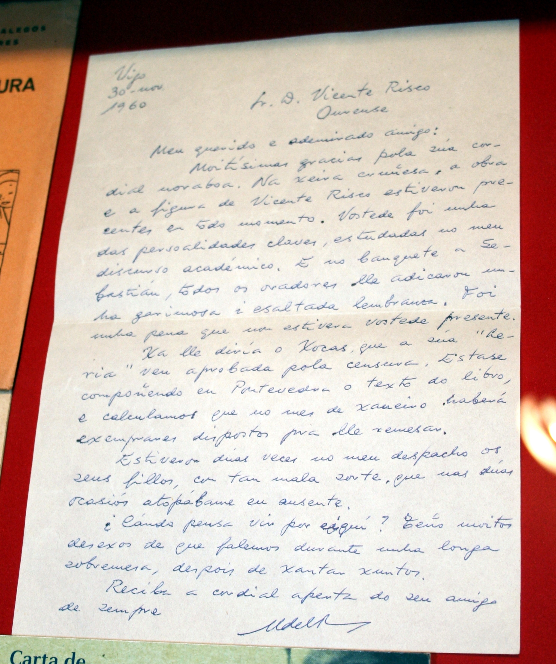 Letter sent by Francisco Fernández del Riego to Vicente Risco, described in Museum of Vicente Risco in Allariz, Ourense, Galicia.